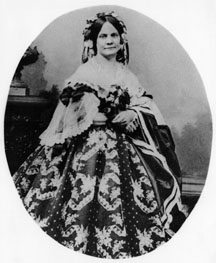 Mary Jane Warfield photographed in 1863.